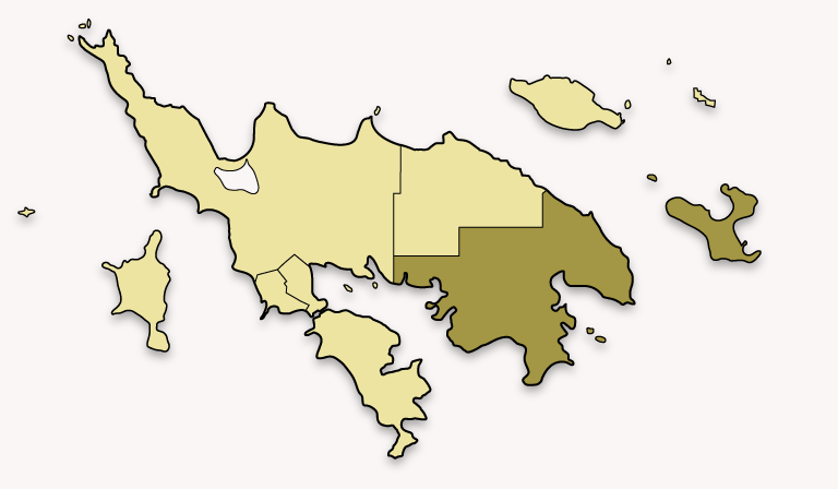 Map of Culebra (Puerto Rico) highlighting Fraile ward